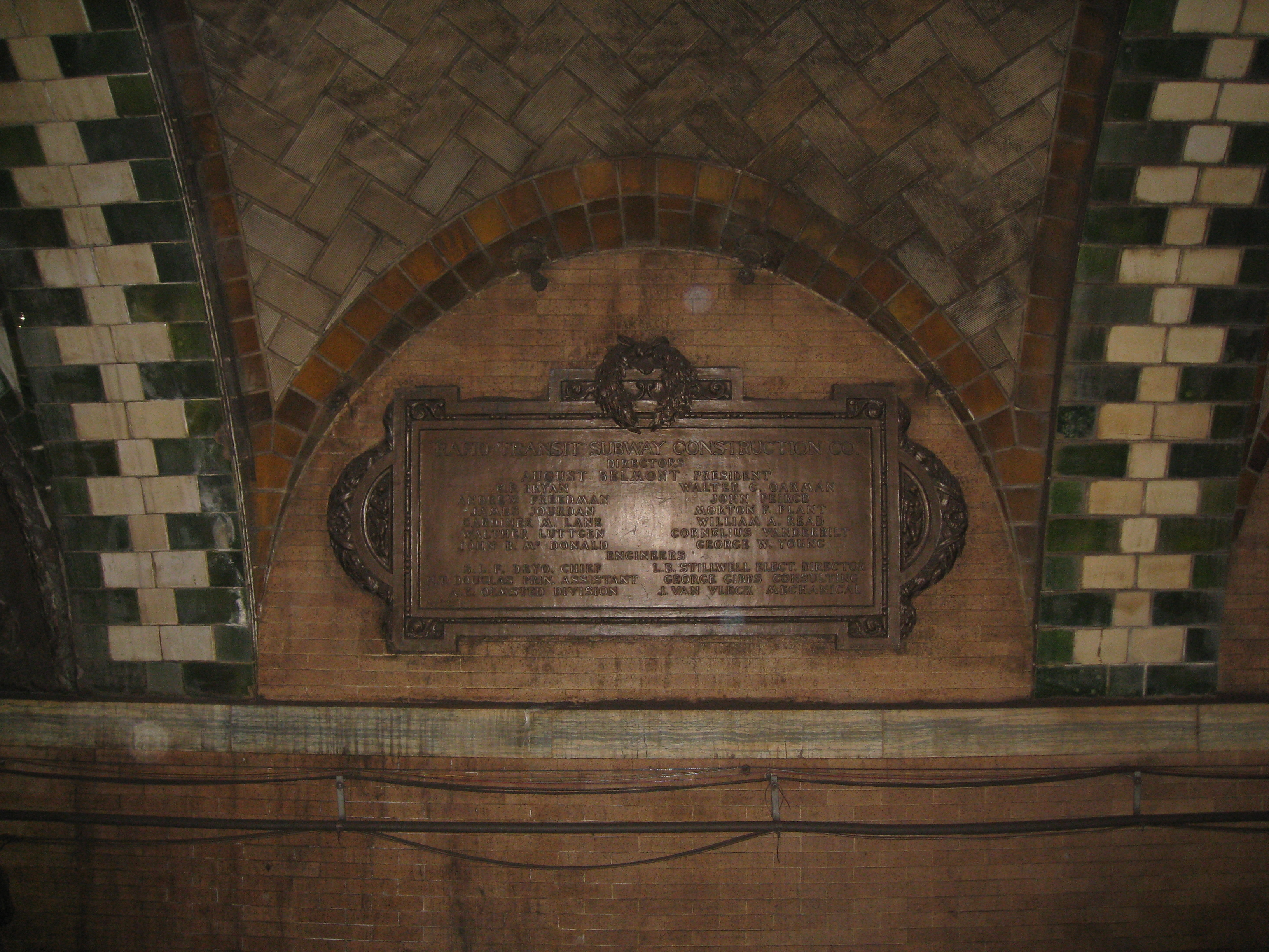 City Hall (IRT Lexington Avenue Line)